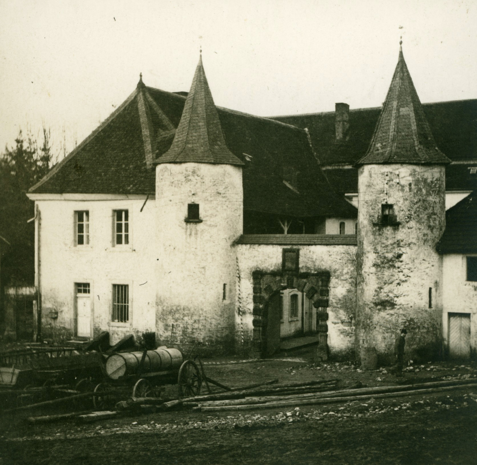 View of the old section of the castle, about 1912